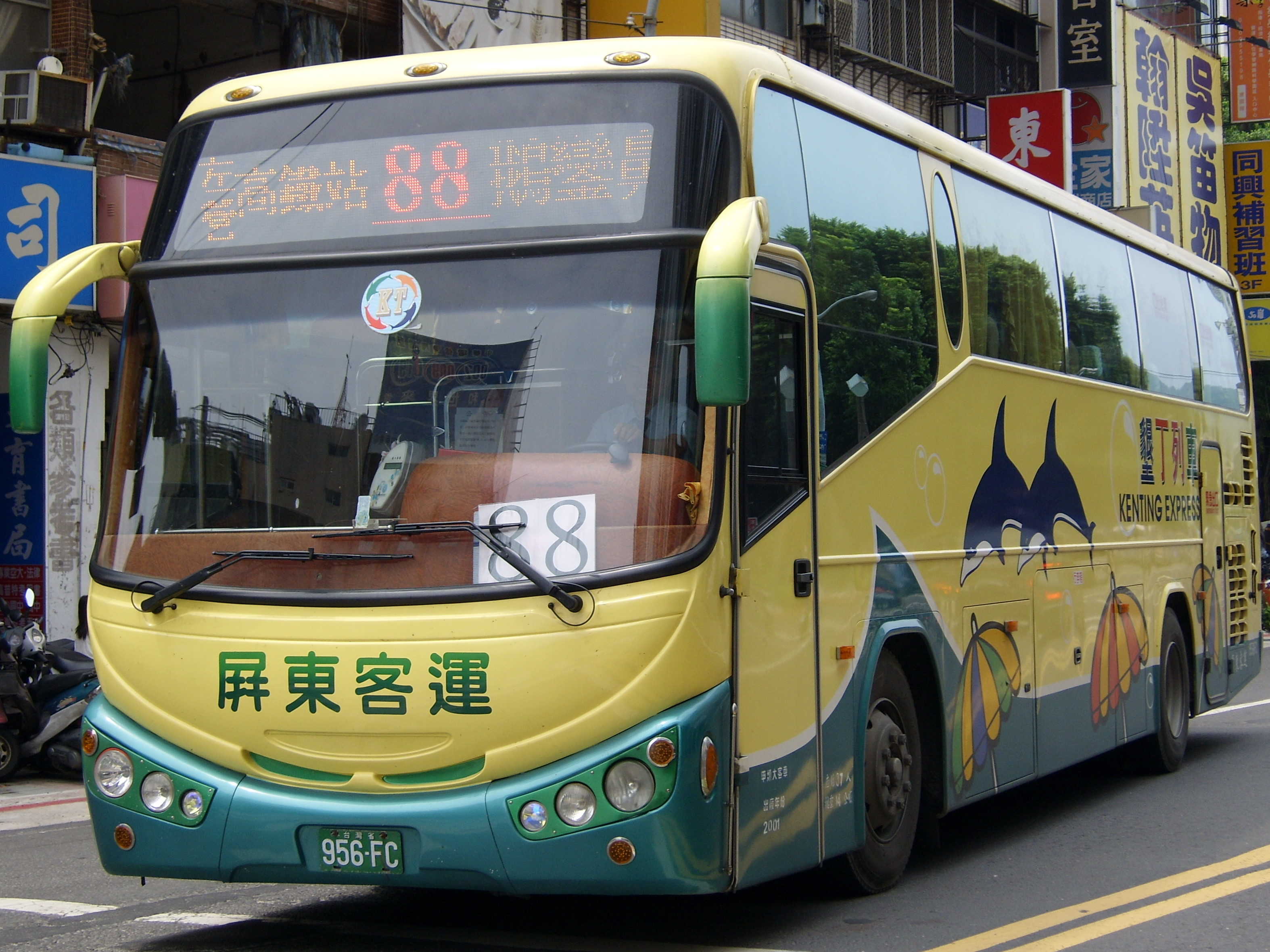 Kenting Express by Pingtung Bus Co., Ltd. contained Hino ERK chassis.